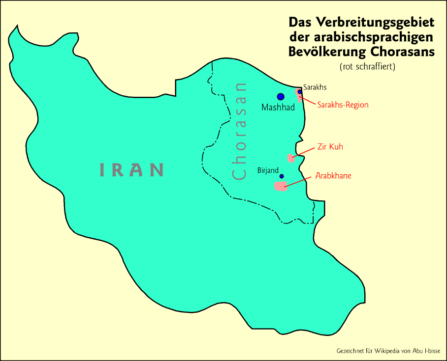 Verbreitungsgebiet der arabischsprachigen Bevölkerung Chorasans / The Arabic speaking population of Khorasan (Iran). Created by Abu l-bisse for Wikimedia.